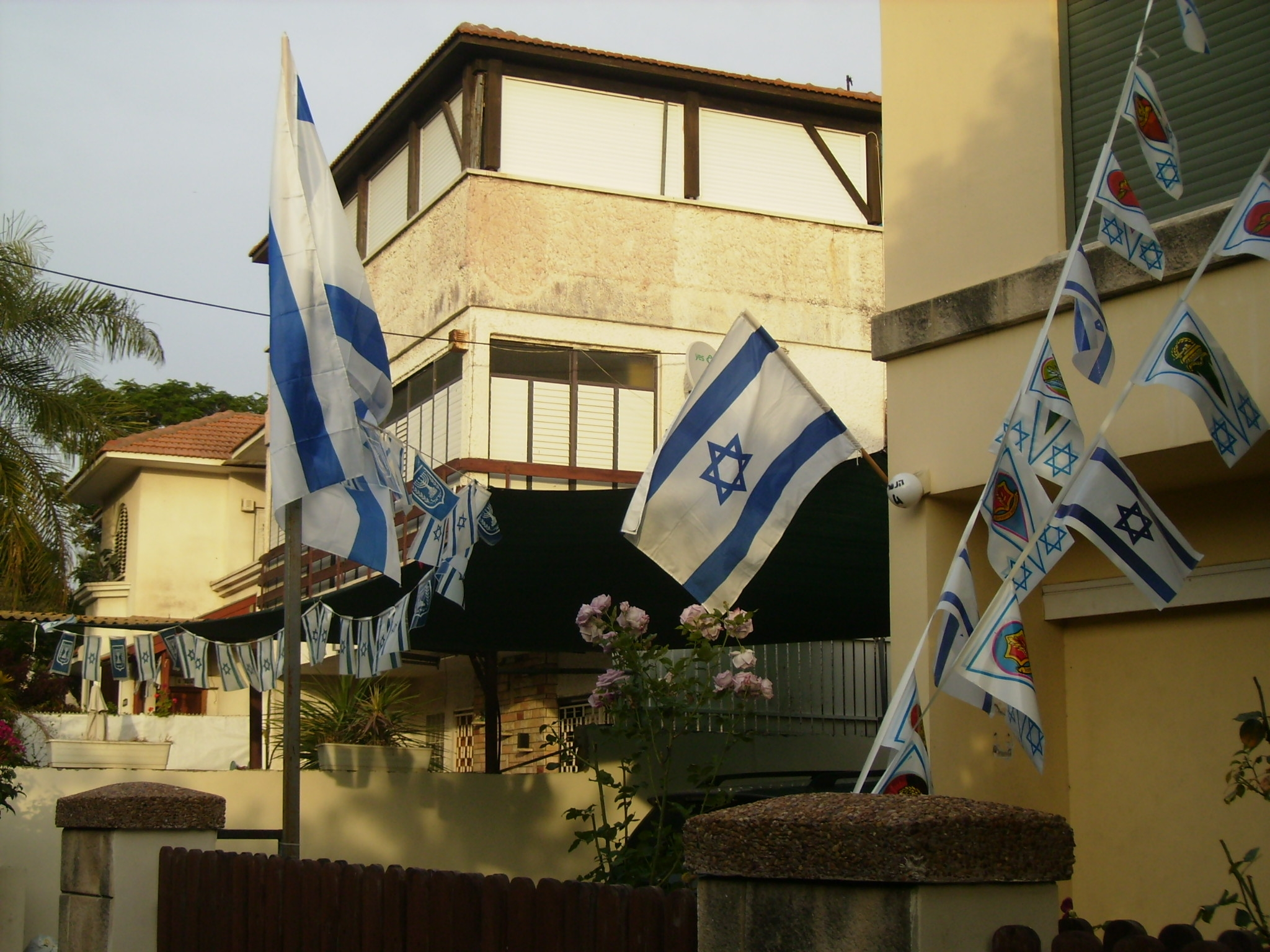 Houses in Holon, Israel decorated for Yom Ha'atzmaut with Israeli flags and emblems.